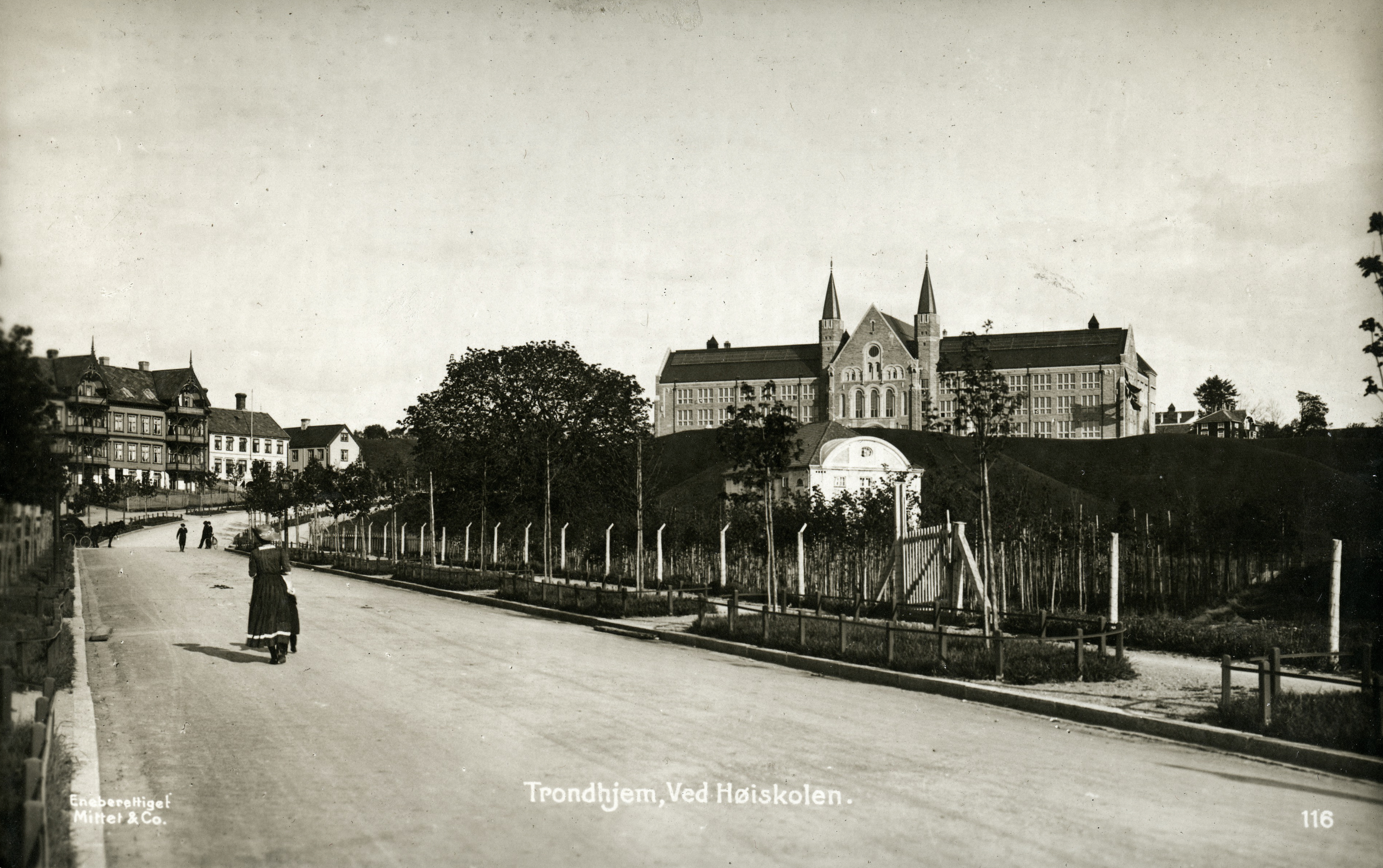 The road leading up to Gløshaugen, which is now known as Campus NTNU Gløshaugen, Trondheim. Approx. 1915